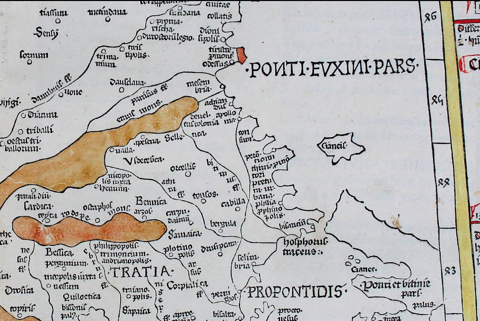 A large island off the Black Sea coast of Thrace in the present Bulgaria-Turkey border area. Depicted on the 1467 map Nona Europae Tabula by Nicolaus Germanus based on Claudius Ptolemy's Geography.[1]